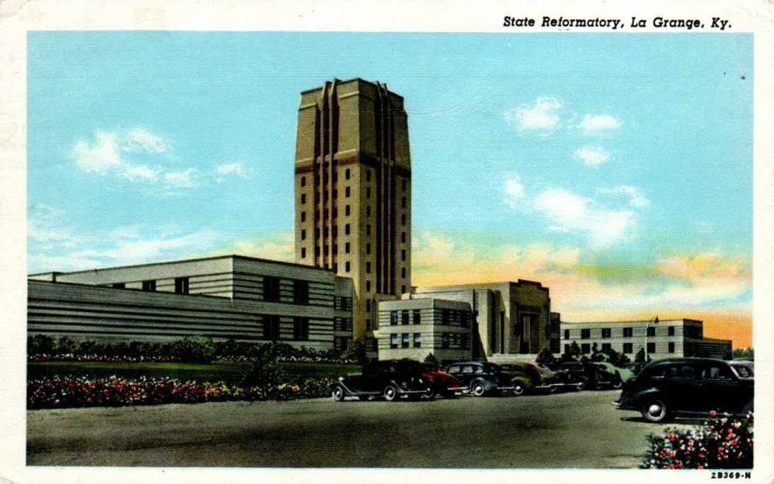 Postcard view circa 1940 of the Kentucky State Reformatory, La Grange, KY (as built c. 1939)